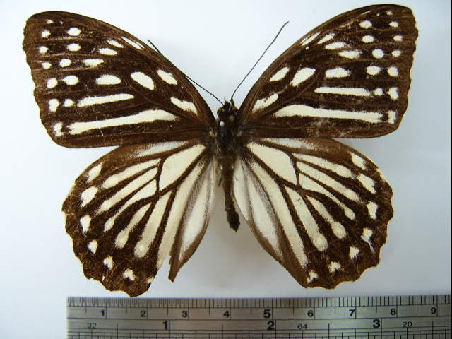 Kerry took this picture at his house on 16 July 2005 Scientific name: Penthema formosanum Date of collection: IV 1996 Place of collection: Taipei city, Taiwan